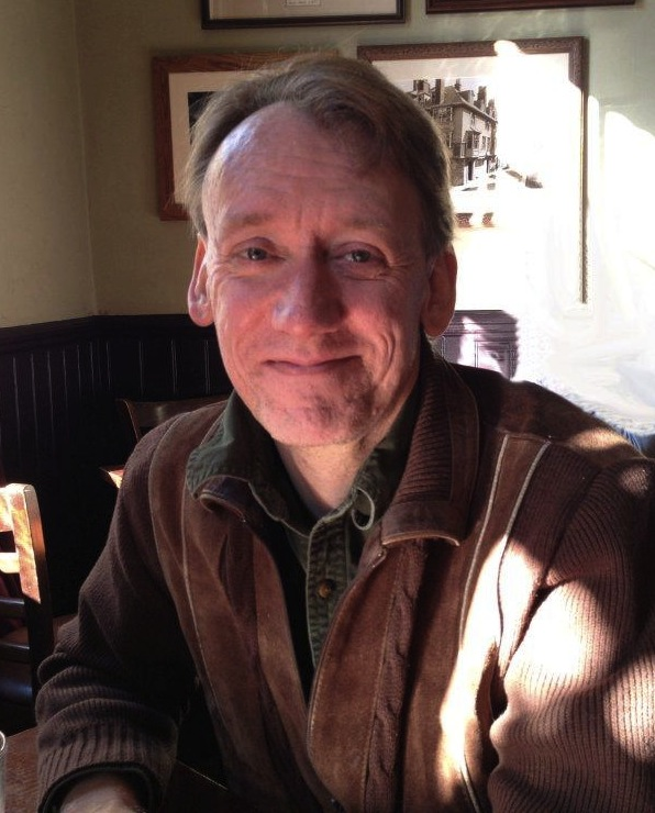 Anthony photographed in 2013